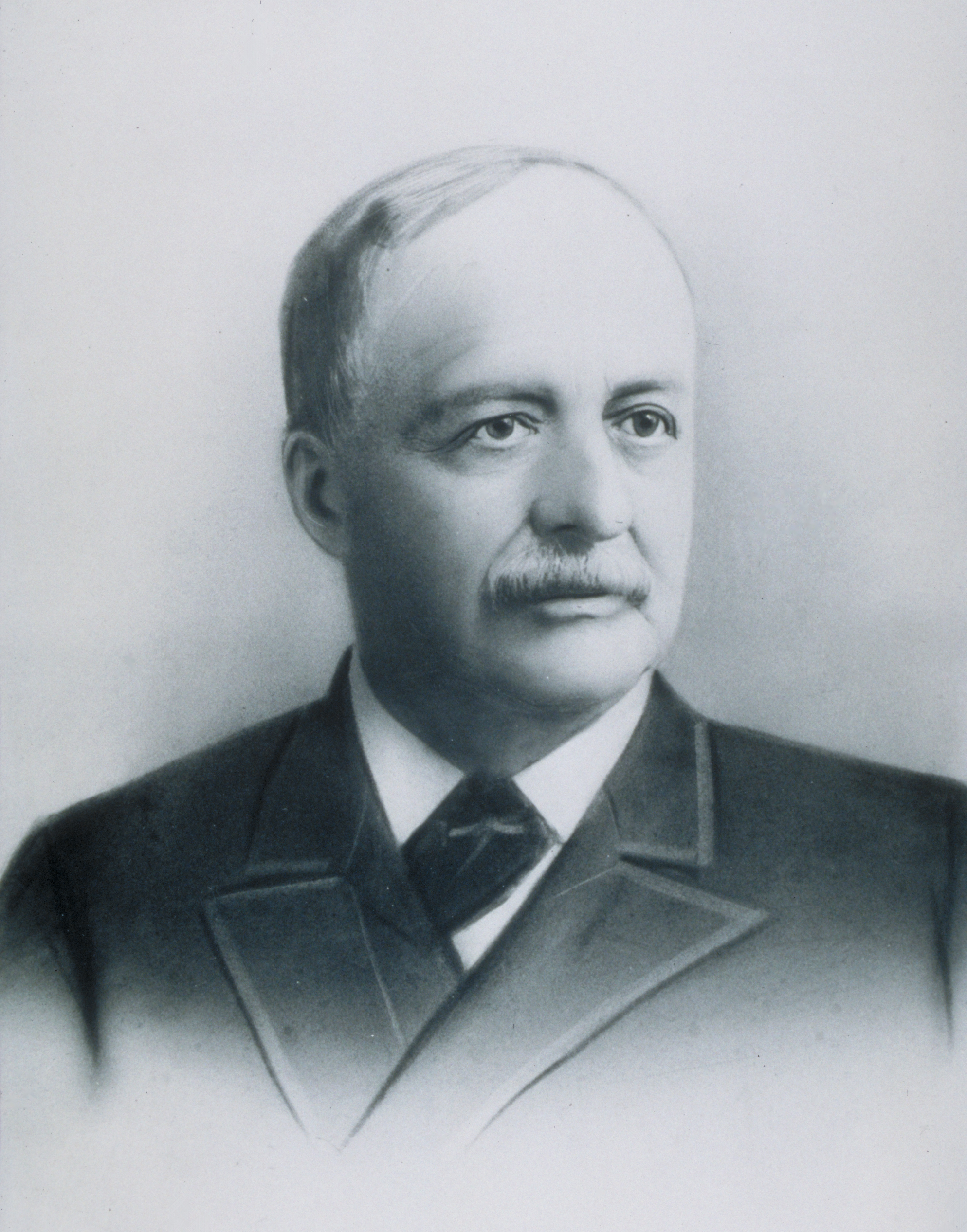 From "Historic VCU: A VCU Images Special Collection" VCU Libraries, James Branch Cabell Library, Special Collections & Archives h0091